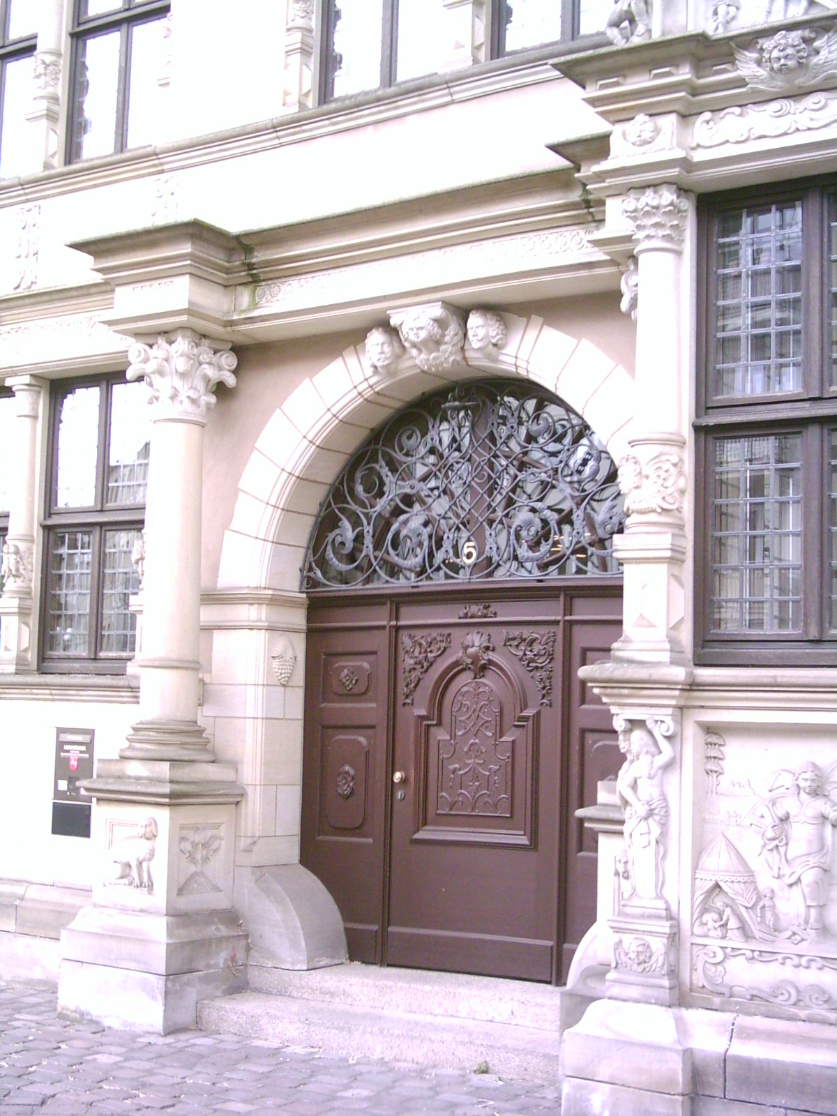 The door in the façade of Leibnihaus